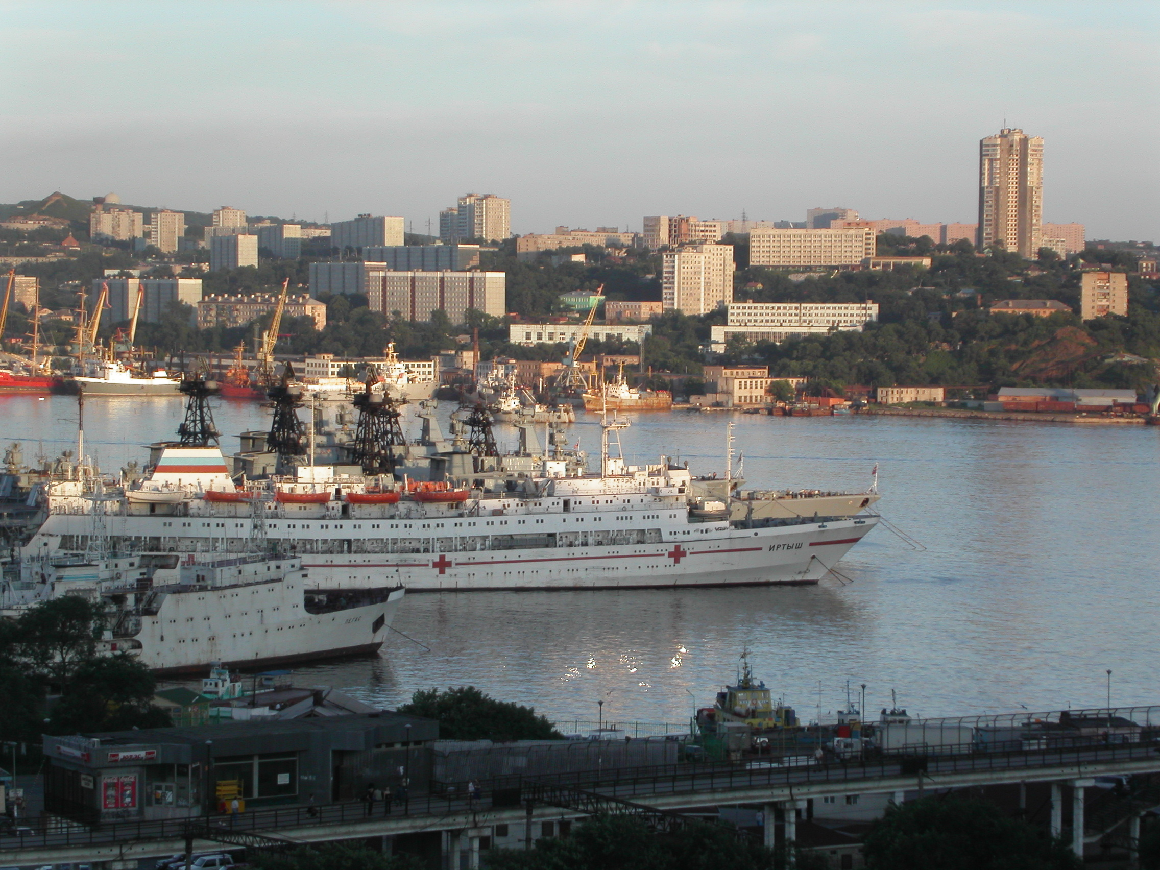 A view of Vladivostok Bay from 8th floor on Aleutskaya Street